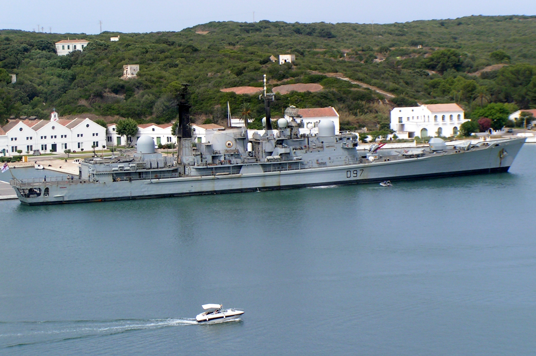 HMS Edinburgh at Mahon, Minorca, returning to UK after Orion 2008, 24 July 2008